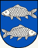 Blazon of Fischingen, Canton of Thurgau, SwitzerlandEsperanto: Blazono de Fischingen, Kantono Turgovio, Svislando